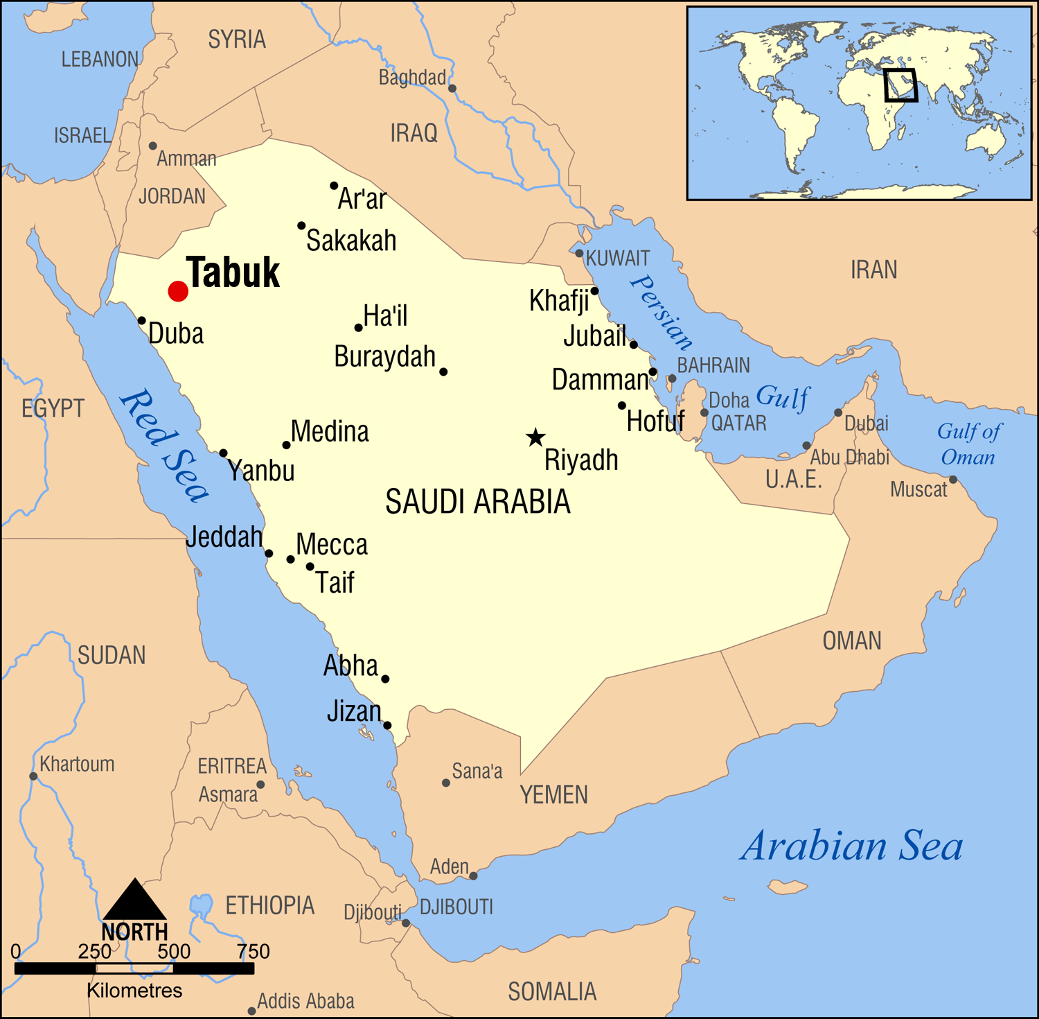 Locator map of Tabuk, Saudi Arabia. Created by NormanEinstein, May 5, 2006.